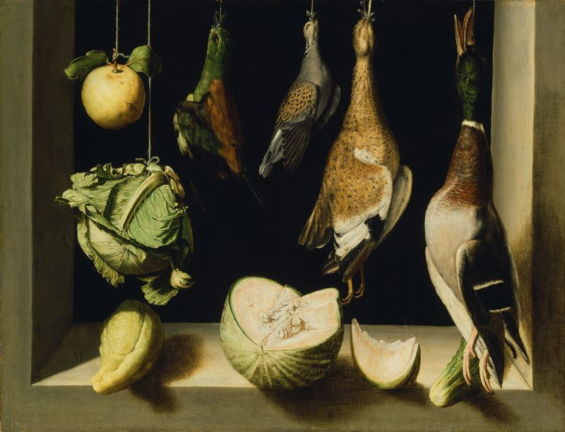 Still Life with Game Fowllabel QS:Les,"Frutas, repollo y aves" label QS:Len,"Still Life with Game Fowl"